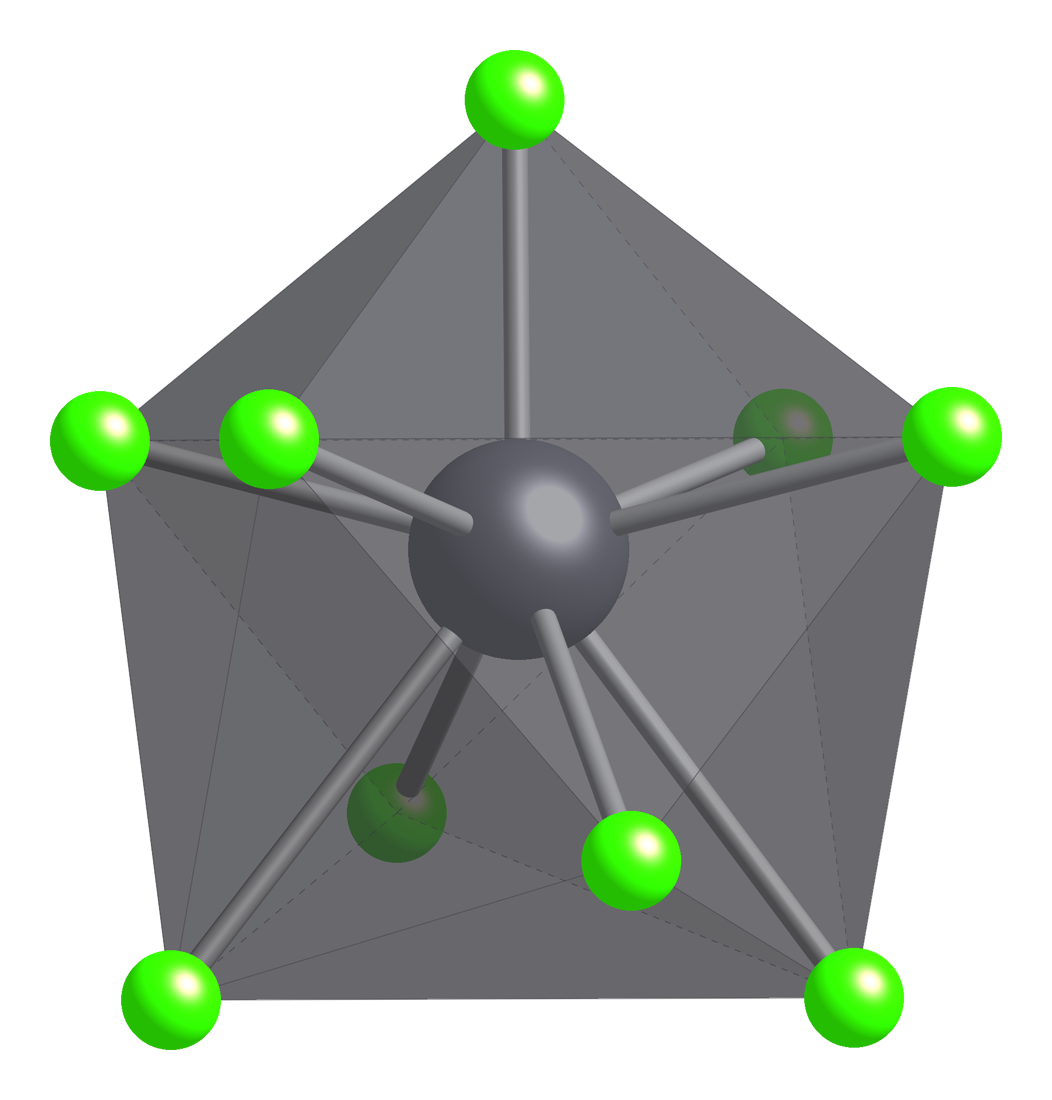 Ball-and-stick model of the coordination environment of lead in cotunnite, PbCl2. X-ray crystallographic data from M. Lumbreras, J. Protas and S. Jebbari, J. Protas and S. Jebbari and J. Schoonman (June-July 1986). "Structure and ionic conductivity of mixed lead halides PbCl2xBr2(1−x). II". Solid State Ionics 20 (4): 295-304. Image generated in CrystalMaker 8.1. Structural data from the CrystalMaker structure library.